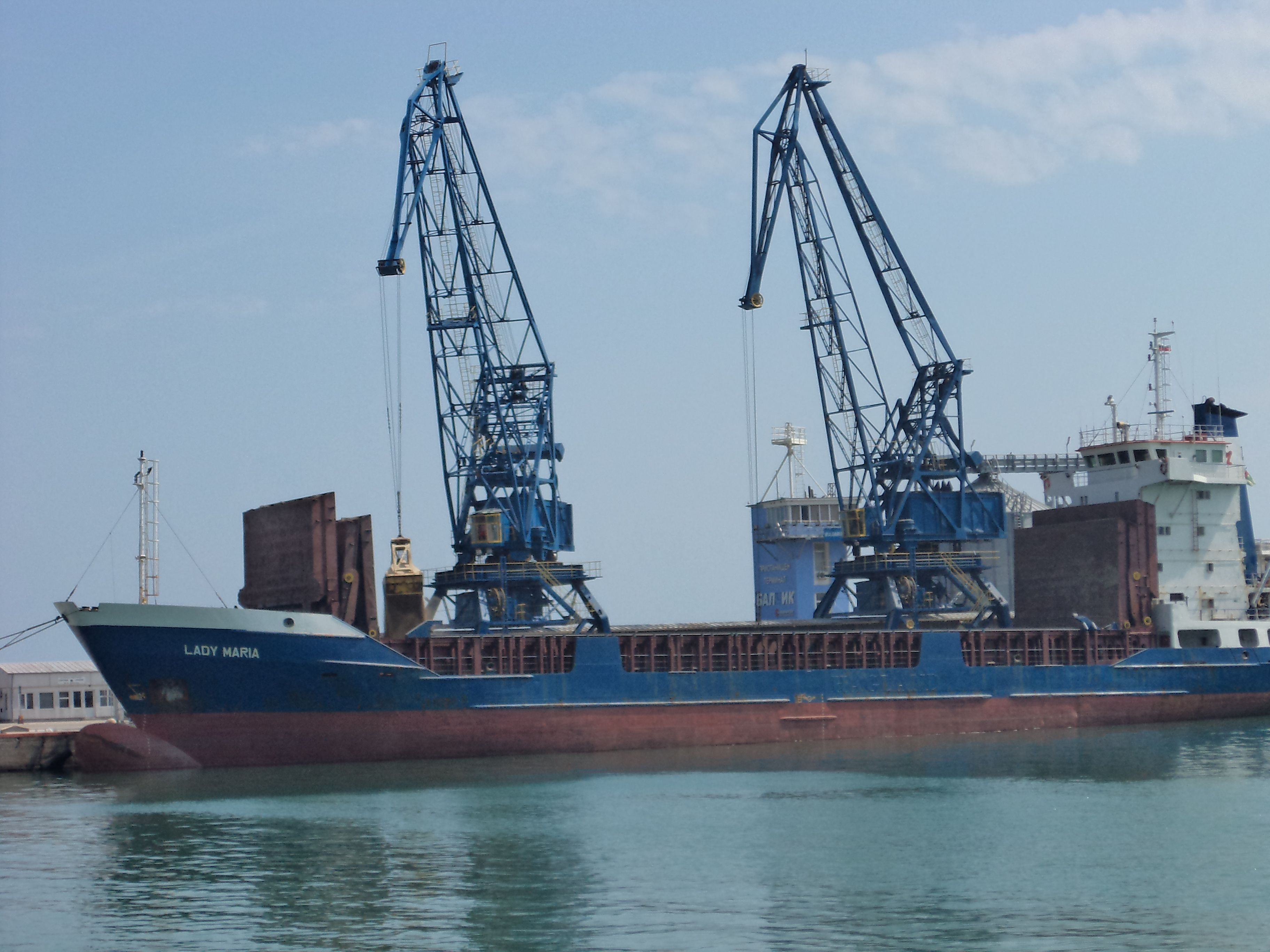 Port of Balchik